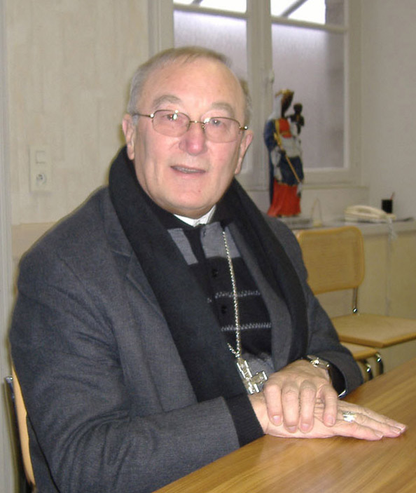 Archbishop Armand Maillard